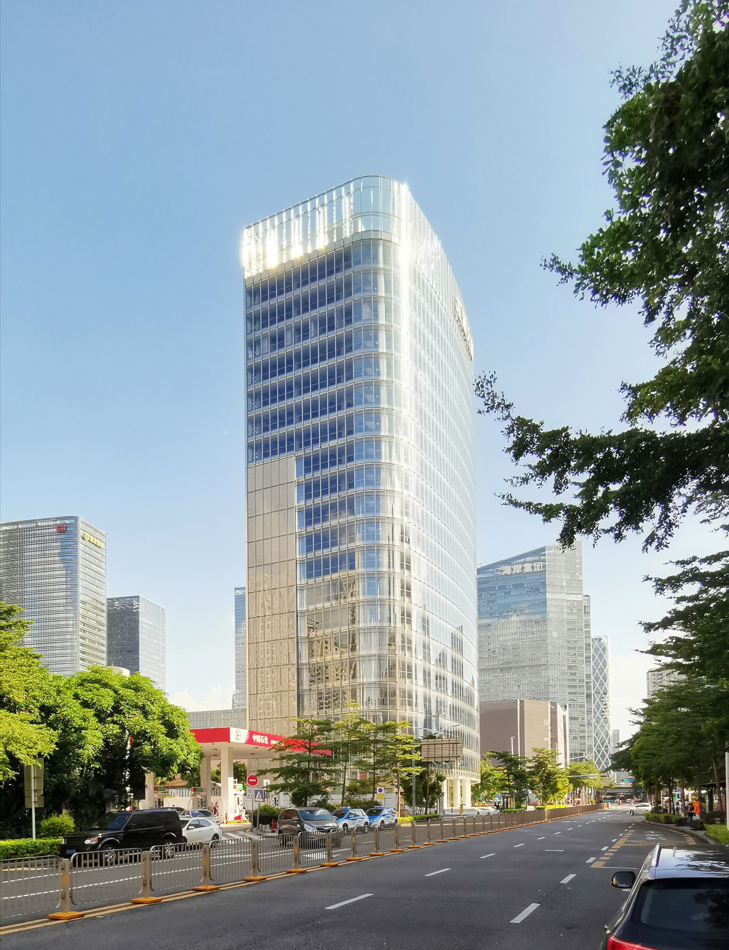 A view of Hybrid Tower from street level.